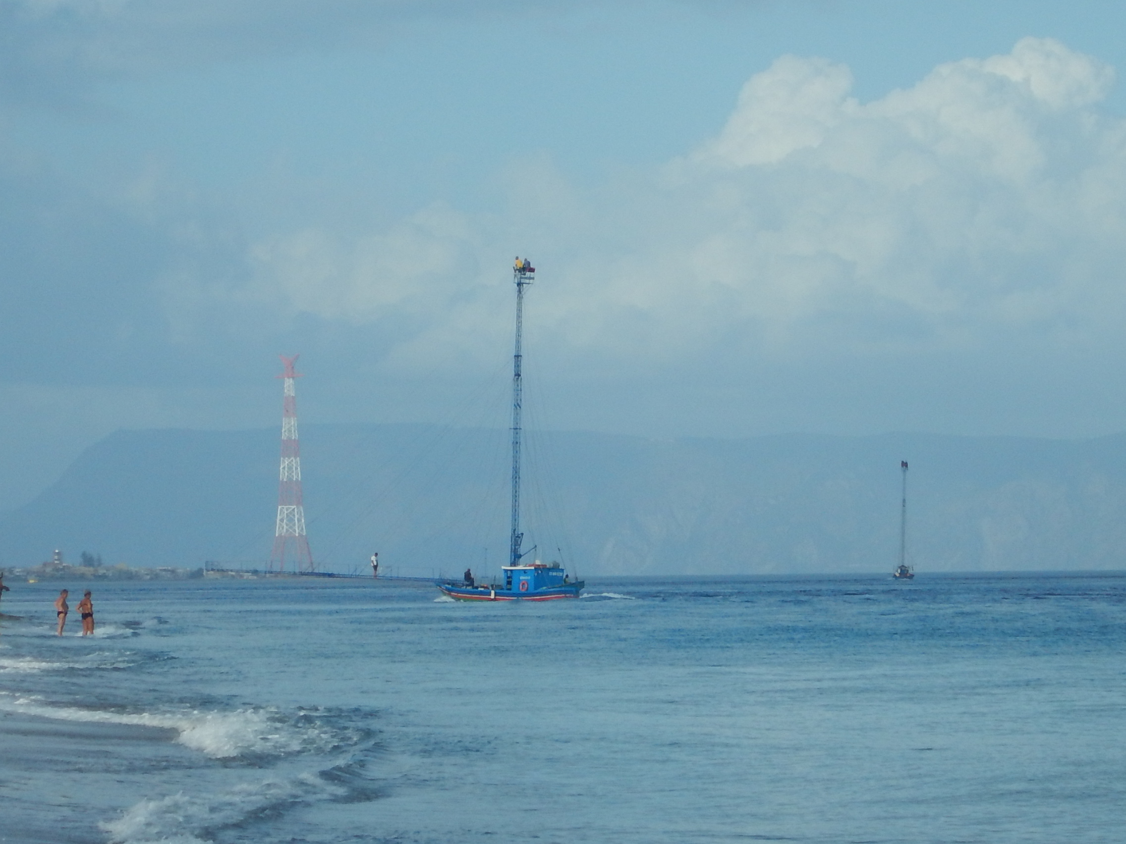 the typical Feluca hunting the swordfish in the Strait of Messina